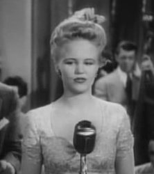 Cropped screenshot of Peggy Lee from the film Stage Door Canteen.